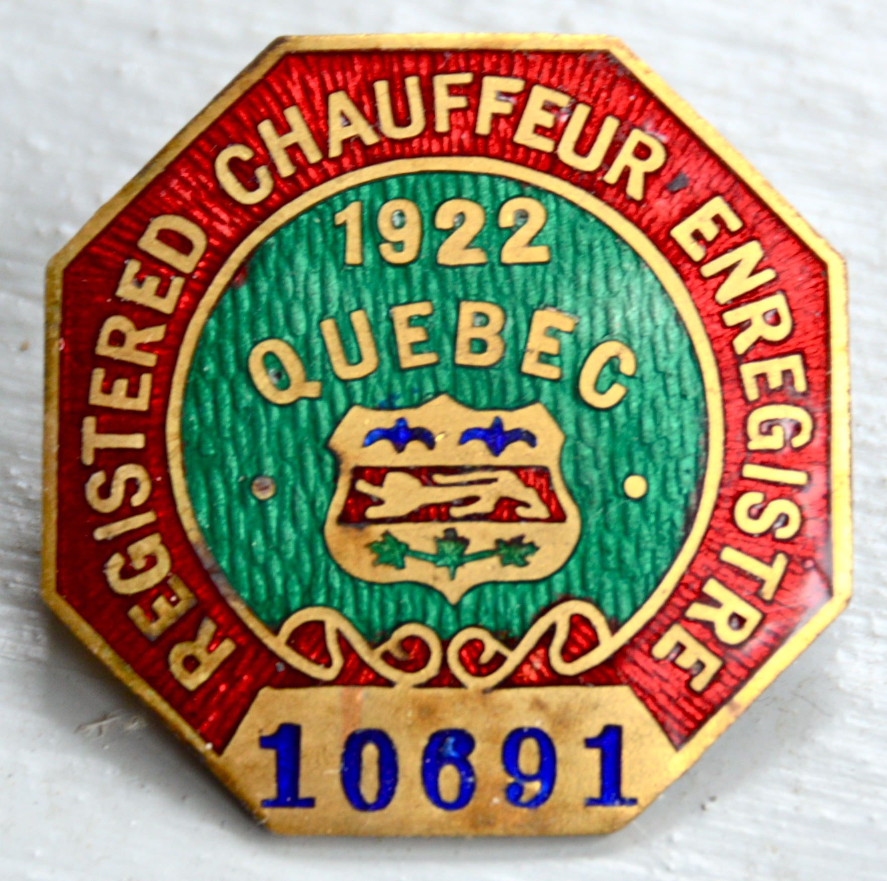 Registered chauffeur badge, year 1922, Quebec. Metal.